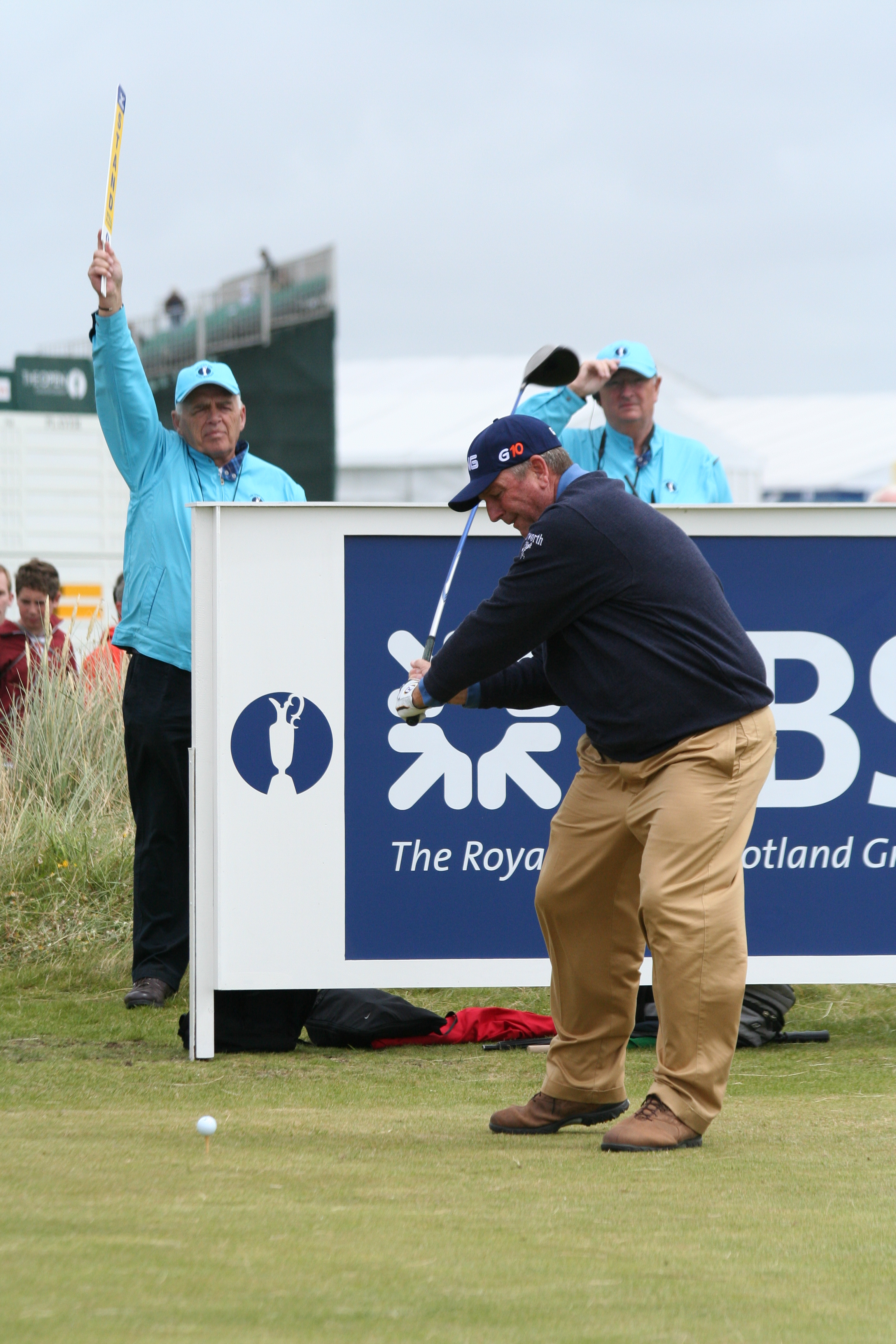 The American professional golfer Mark Calcavecchia